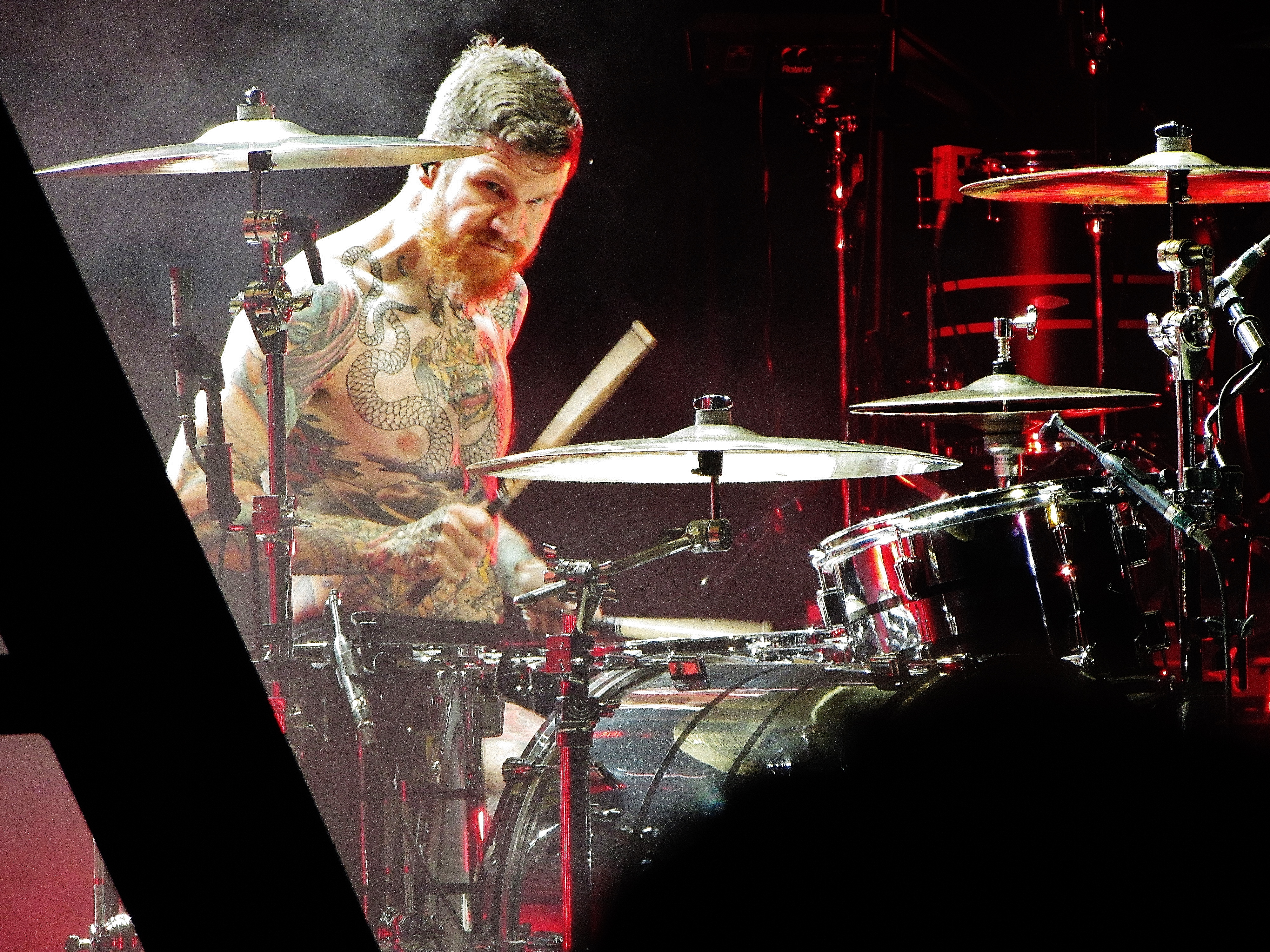 Drummer Andy Hurley of Fall Out Boy performing at the Klipsch Music Center in Noblesville, Indiana (July 9, 2014)